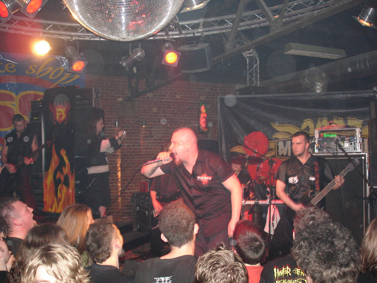 Frontside podczas trasy Mystic Tour 2007